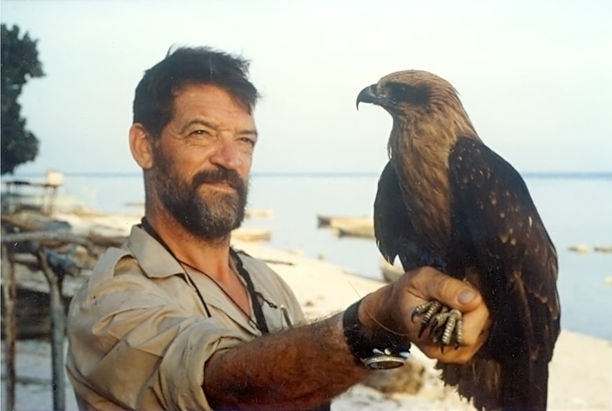 Picture of Kees Heij with Brahminy kite on island Boano (Maluku, Indonesia) in 1991